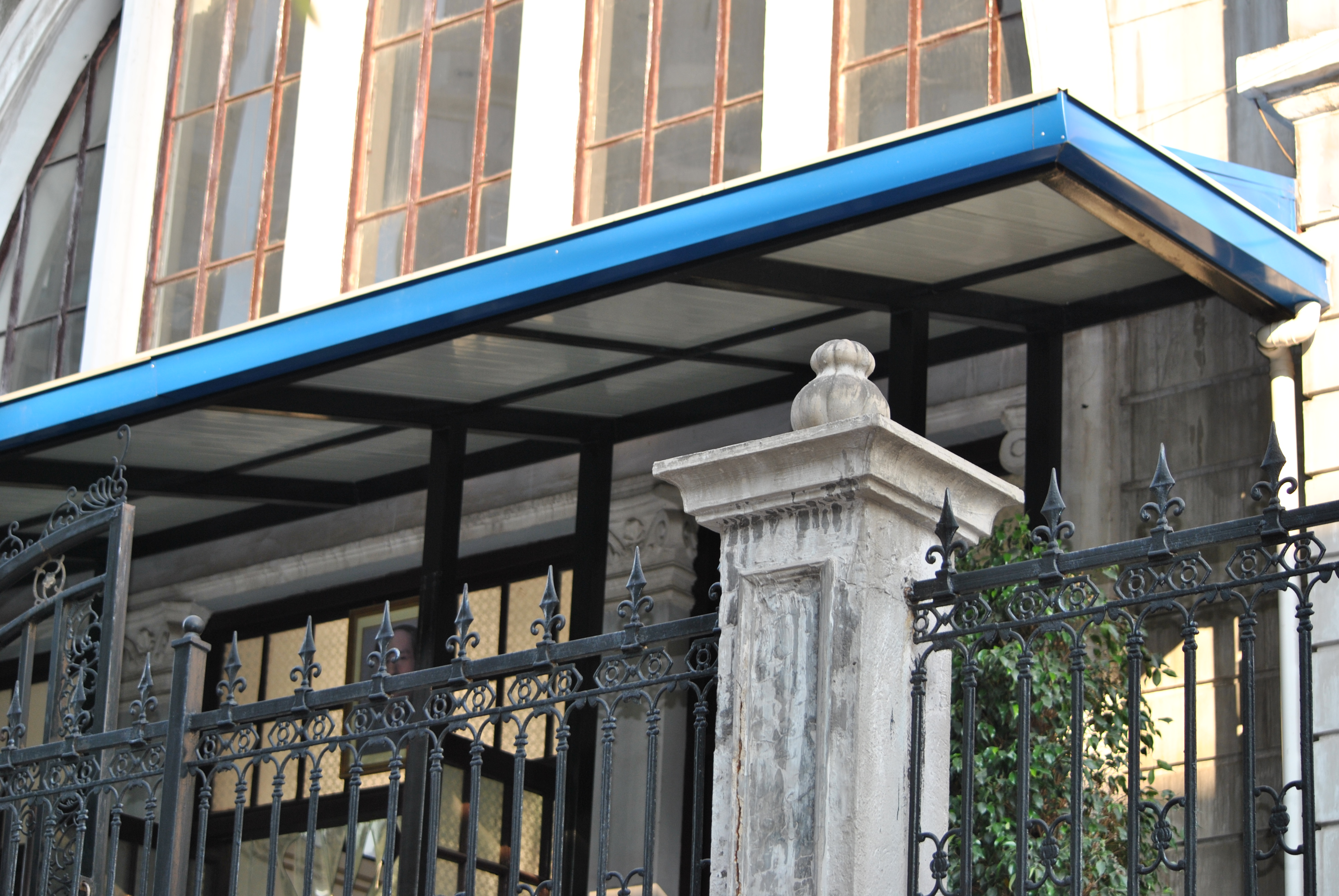 The add-on of Hankou Dazhimen Railway Station